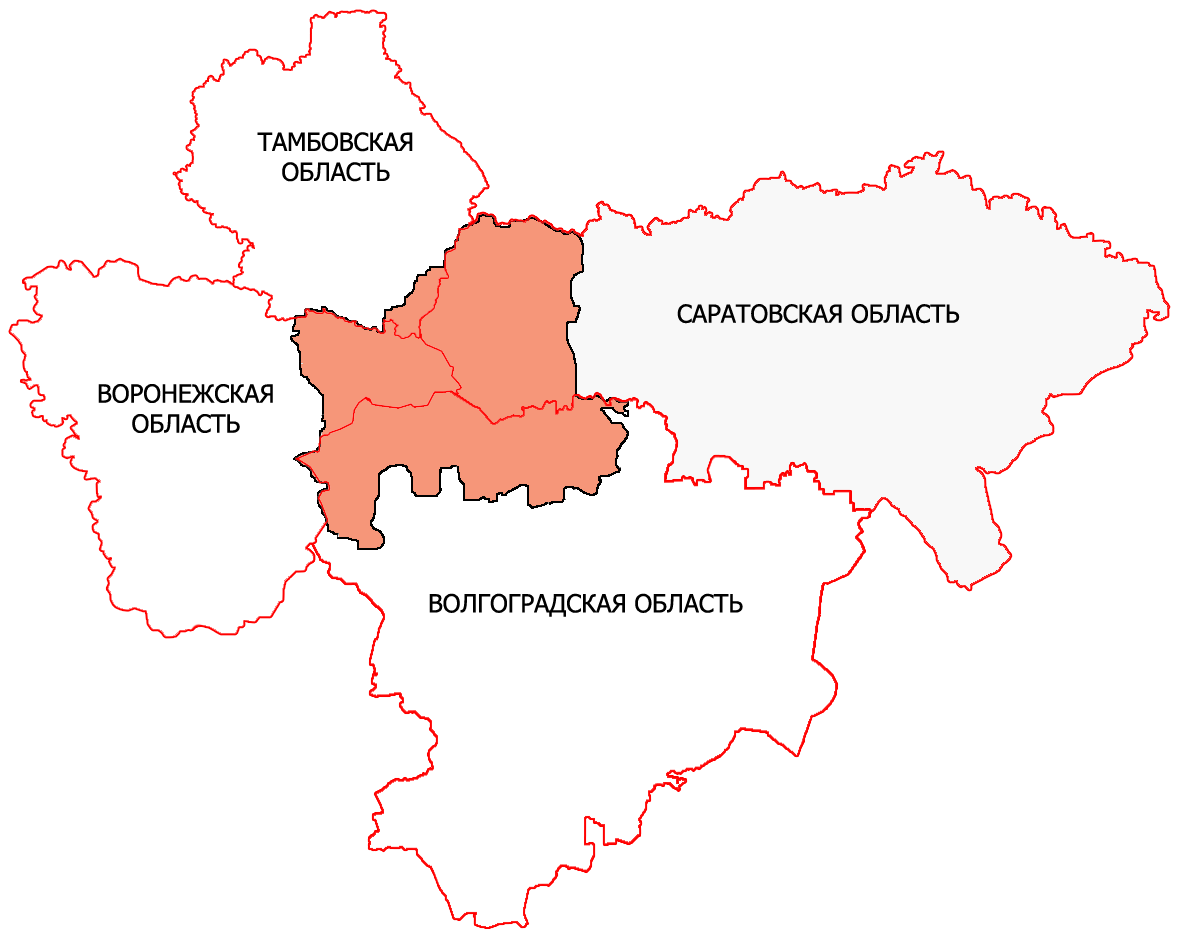 Map of Balashovskaja olblast